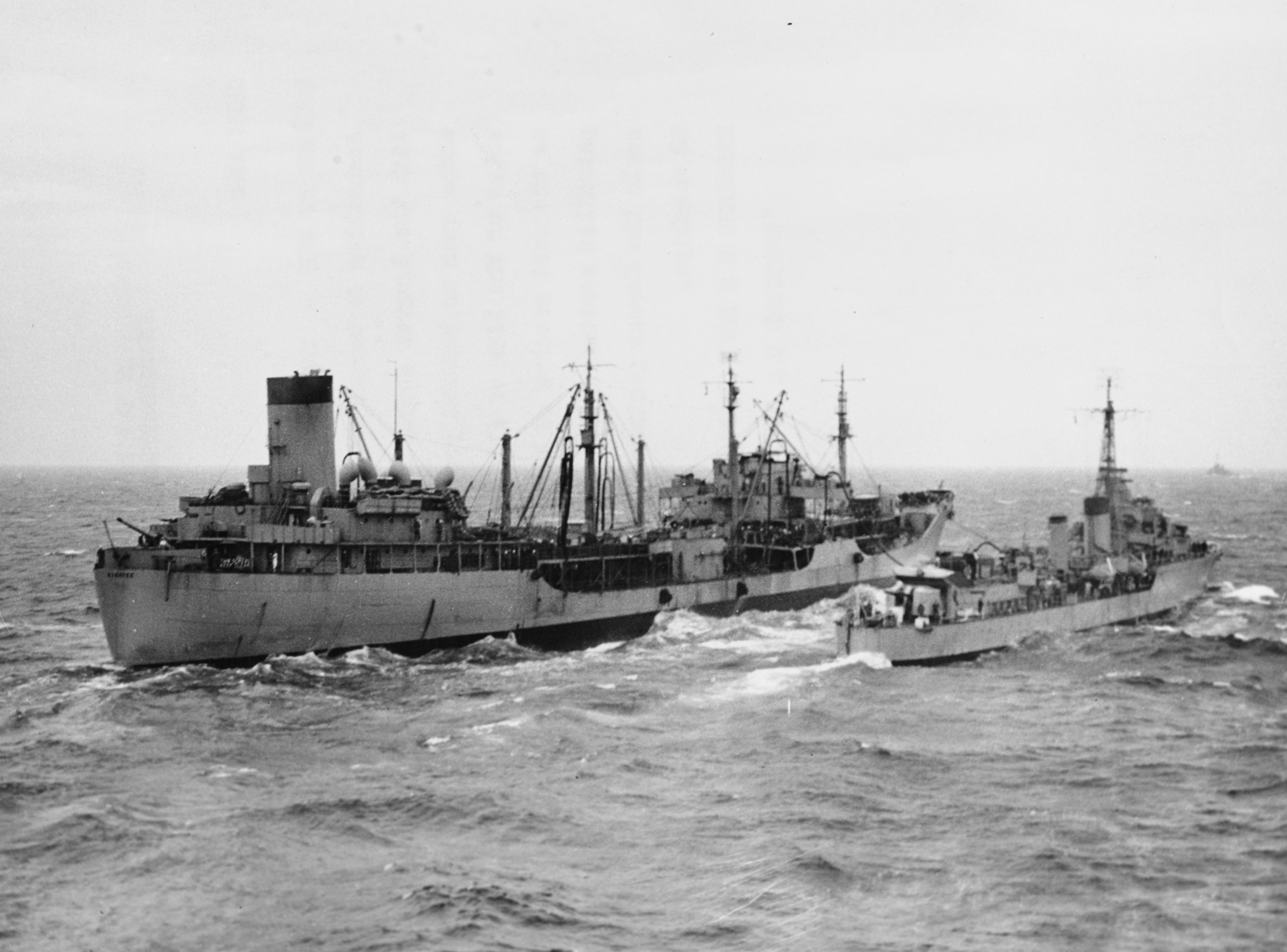 The U.S. Navy fleet oiler USS Manatee (AO-58) refueling the Royal Australian Navy destroyer HMAS Warramunga (D123) in Korean waters on 27 June 1951.